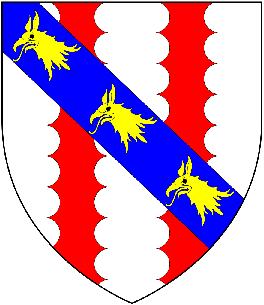 Arms of Slanning of Ley, Devon: Argent, two pales engrailed gules over all on a bend azure three griffin's heads or. (Source: Vivian, Lt.Col. J.L., (Ed.) The Visitation of the County of Devon: Comprising the Heralds' Visitations of 1531, 1564 & 1620, Exeter, 1895, p.840, with piles for pales. As illustrated in last plate of Prince, John, (1643–1723) The Worthies of Devon, 1810 edition, London. Bend engrailed per Pole, Sir William (d.1635), Collections Towards a Description of the County of Devon, Sir John-William de la Pole (ed.), London, 1791, p.502)